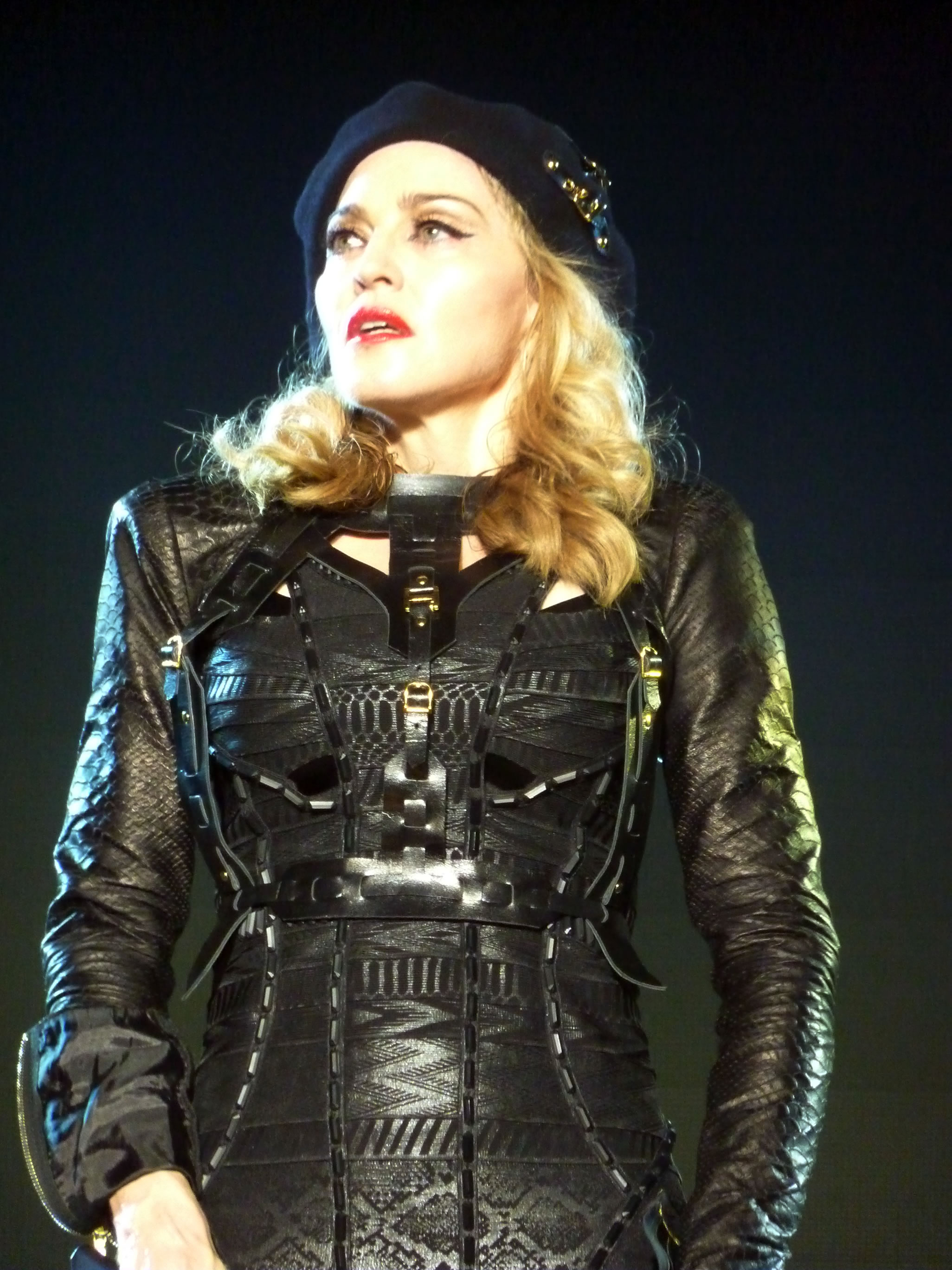 Madonna concert at Vancouver